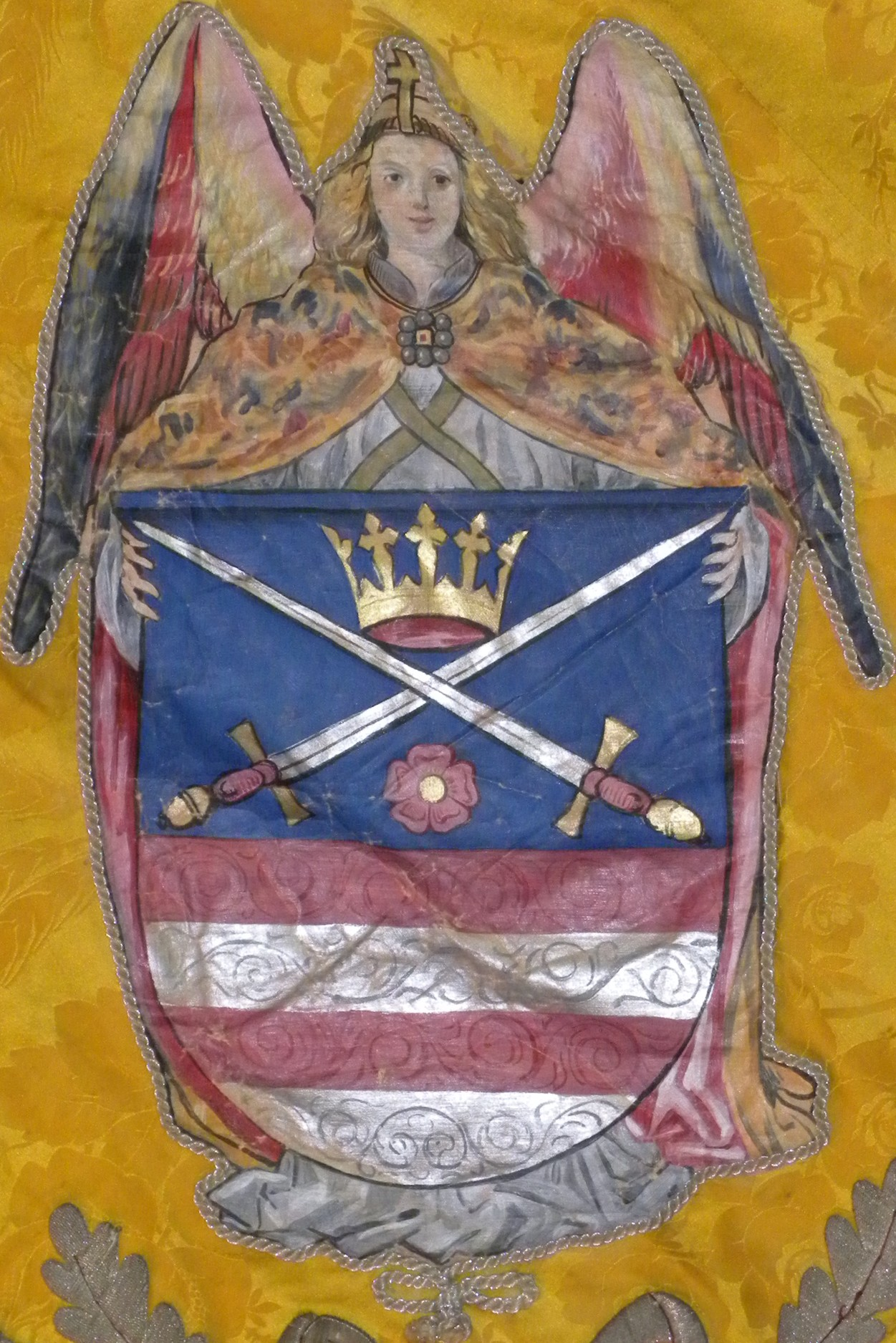 Coat of arms of Kežmarok. Commemorative guild flag with inscription "KÉSMÁRKI IPARTESTÜLET // 1885 - 1904". Castle of Kežmarok, Slovakia.